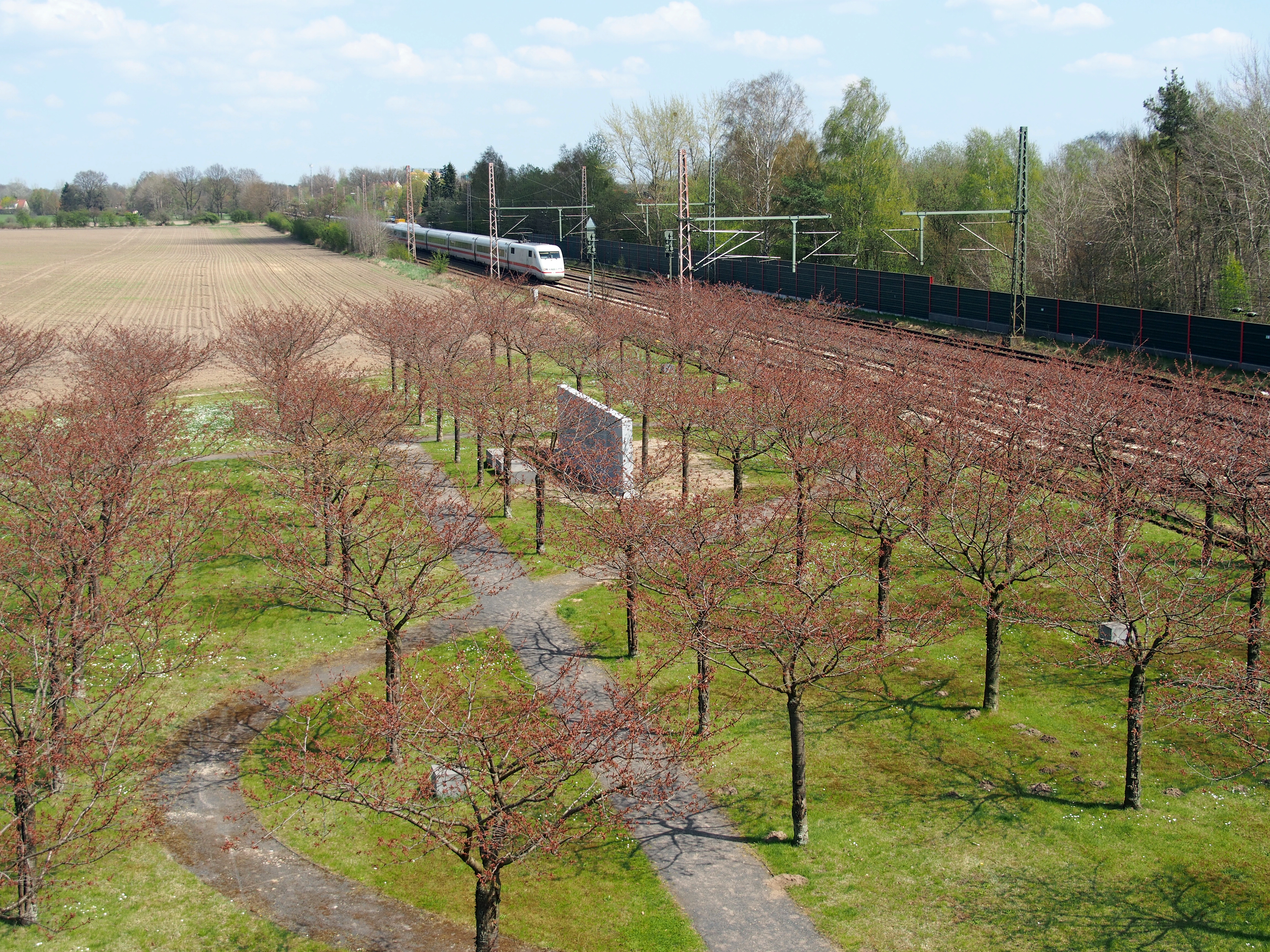 Memorial for the Eschede train disaster.